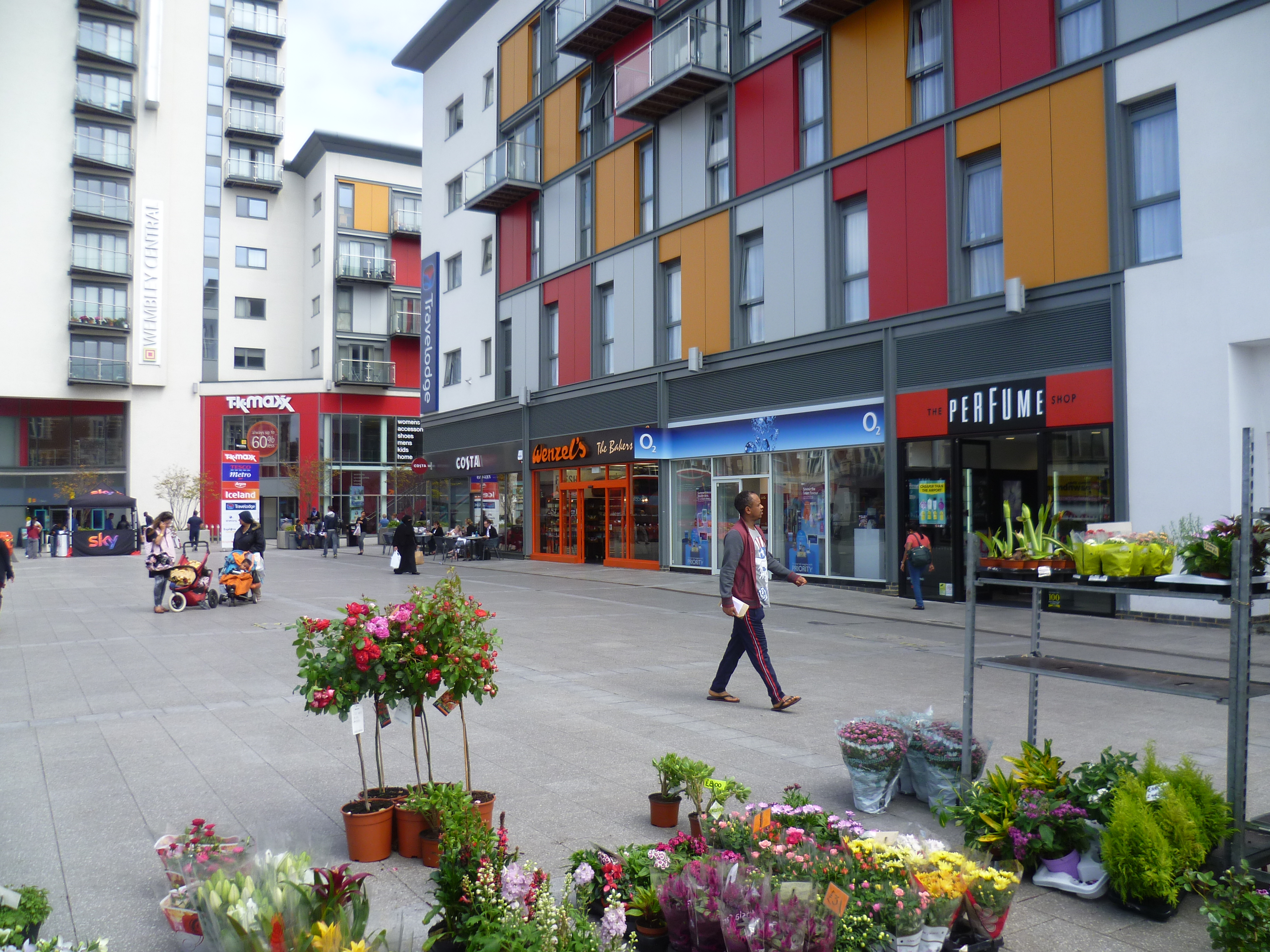 Central Square, Wembley